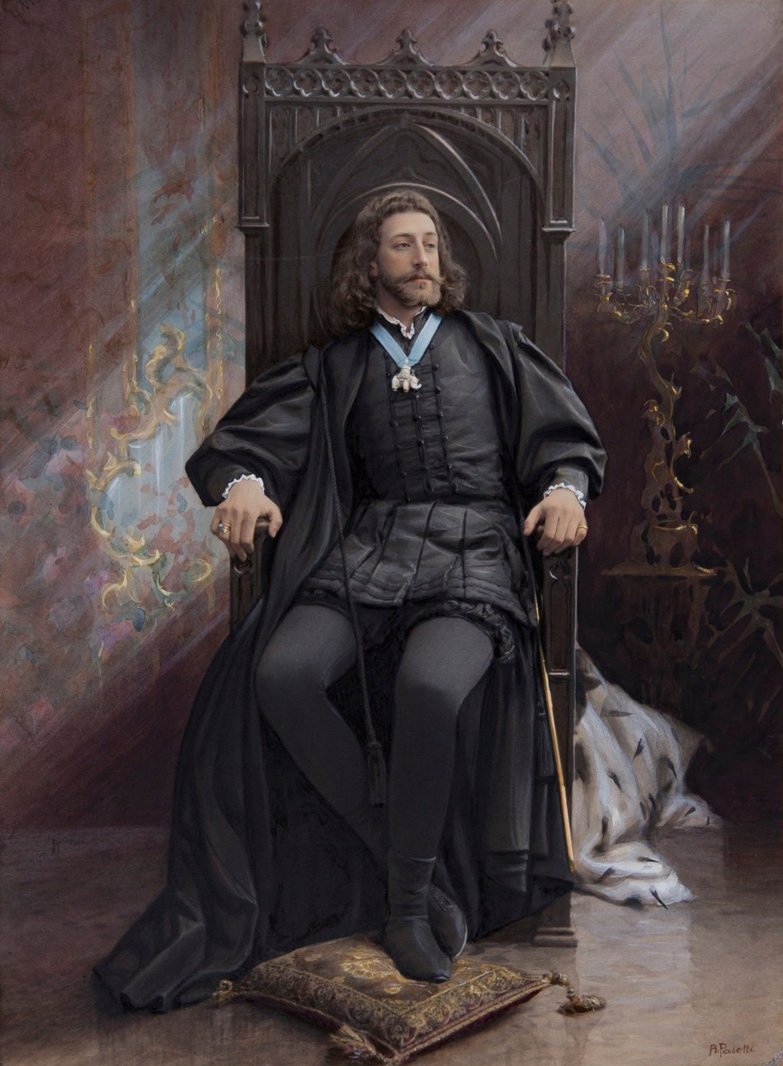 Portrait of Grand Duke Konstantin Konstantinovich , St. Petersburg. 1899 Imprint on salted paper, watercolor, white, lacquer. The Grand Duke presented as Hamlet in the amateur production of Shakespeare tragedy at the Hermitage Theatre. In 1899, Konstantin not only translated the "Hamlet" into the Russian language, but also with the permission of Nicholas II played a major role in the play. Emperor made in his diary on February 27, 1899 the following entry: "After breakfast, set off alone in the Marble Palace. Kostya Izmaylovsky's officers played a few scenes from "Hamlet", his translation. He played better than anyone."